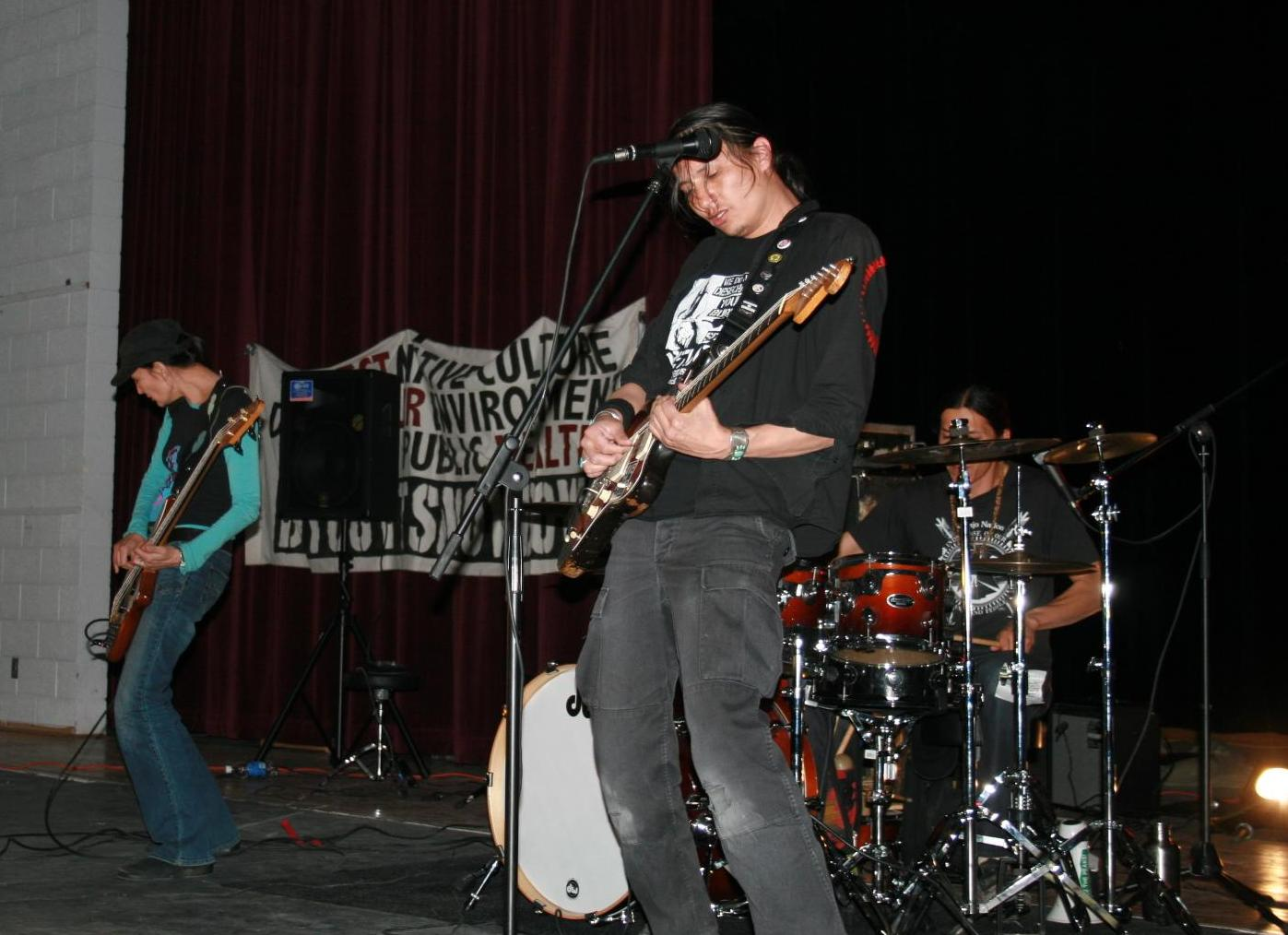 Blackfire performing at "The Unsung Heros of Time '09"